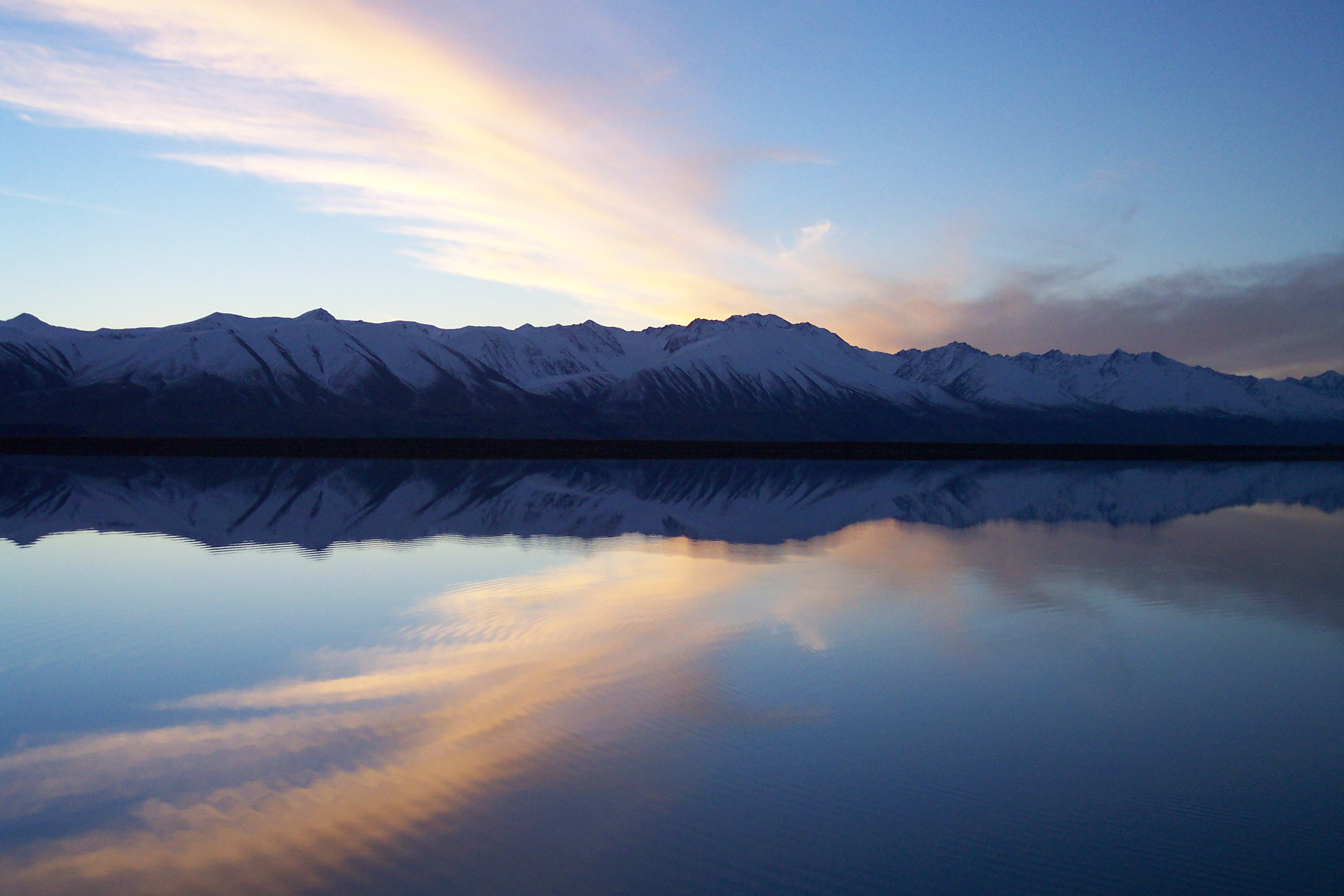 Image by Shaun Muckle, 31-07-2004, 17:36. View of Ben Ohau range from eastern shore of Tekapo B hydrogenerating station headgate pond.